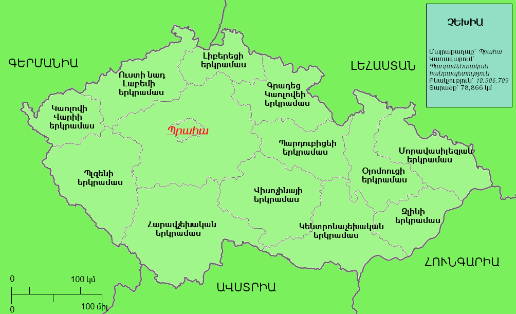 Map of Czech